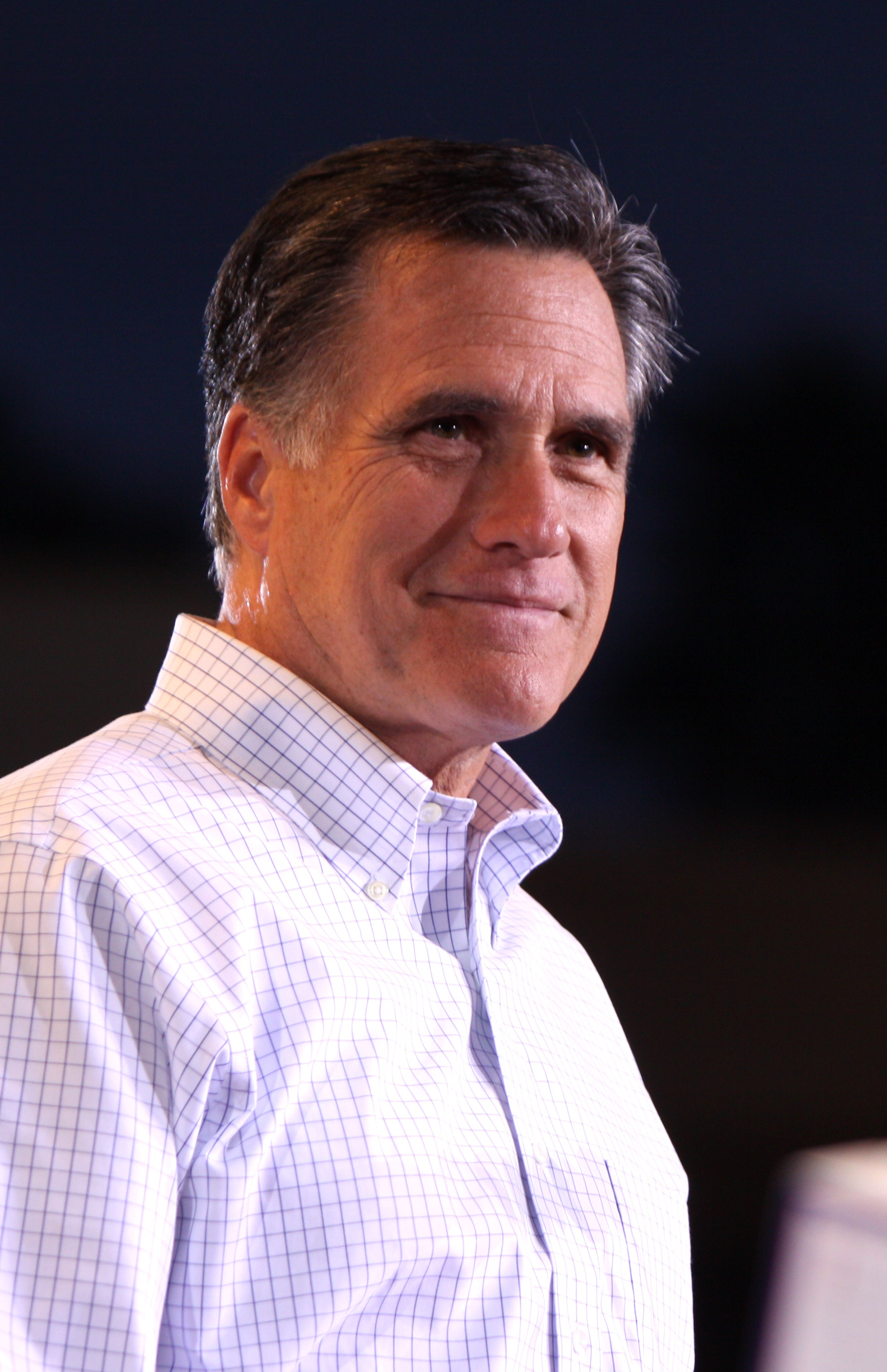 Mitt Romney in Mesa, Arizona